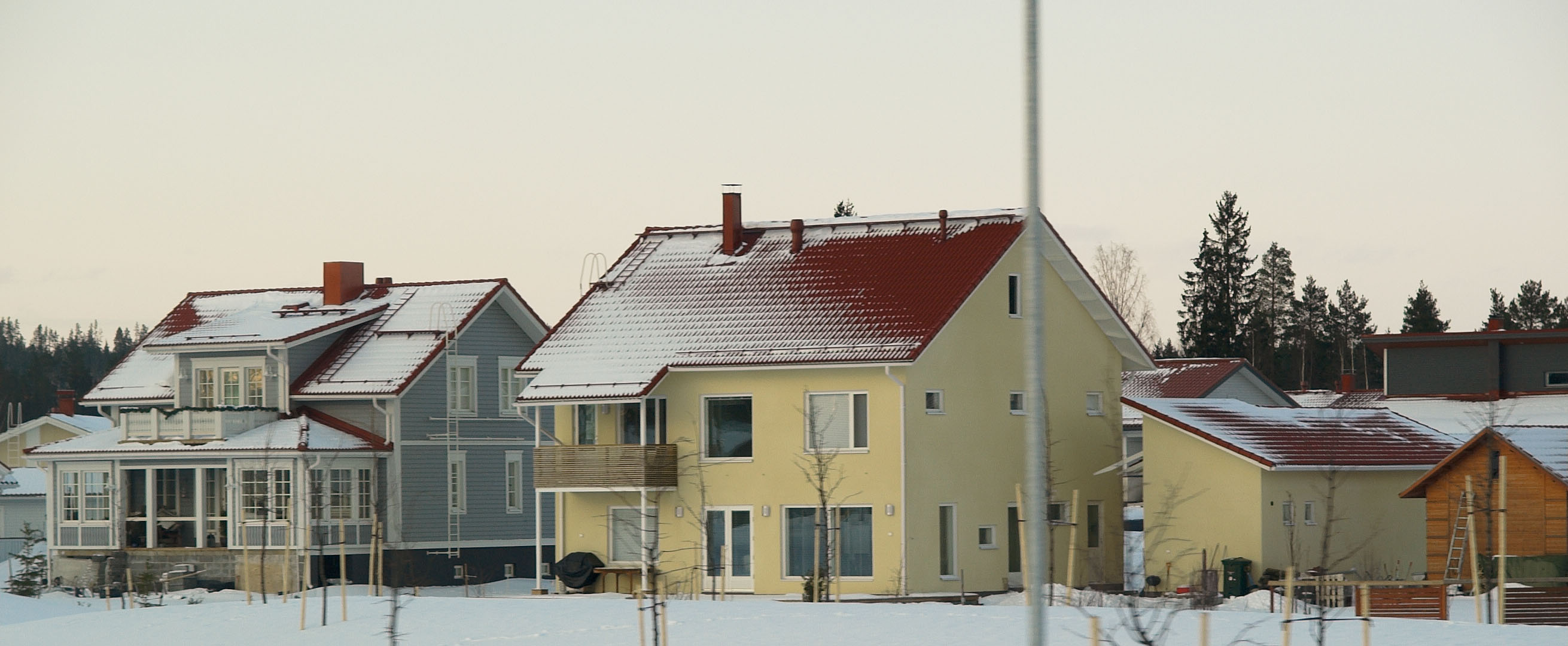 More houses in Saaristokaupunki district, Kuopio, Finland.